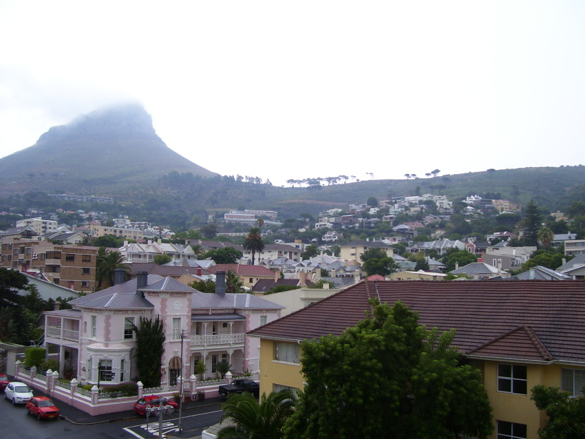 A view over Tamboerkloof with Lion's Head in the background.